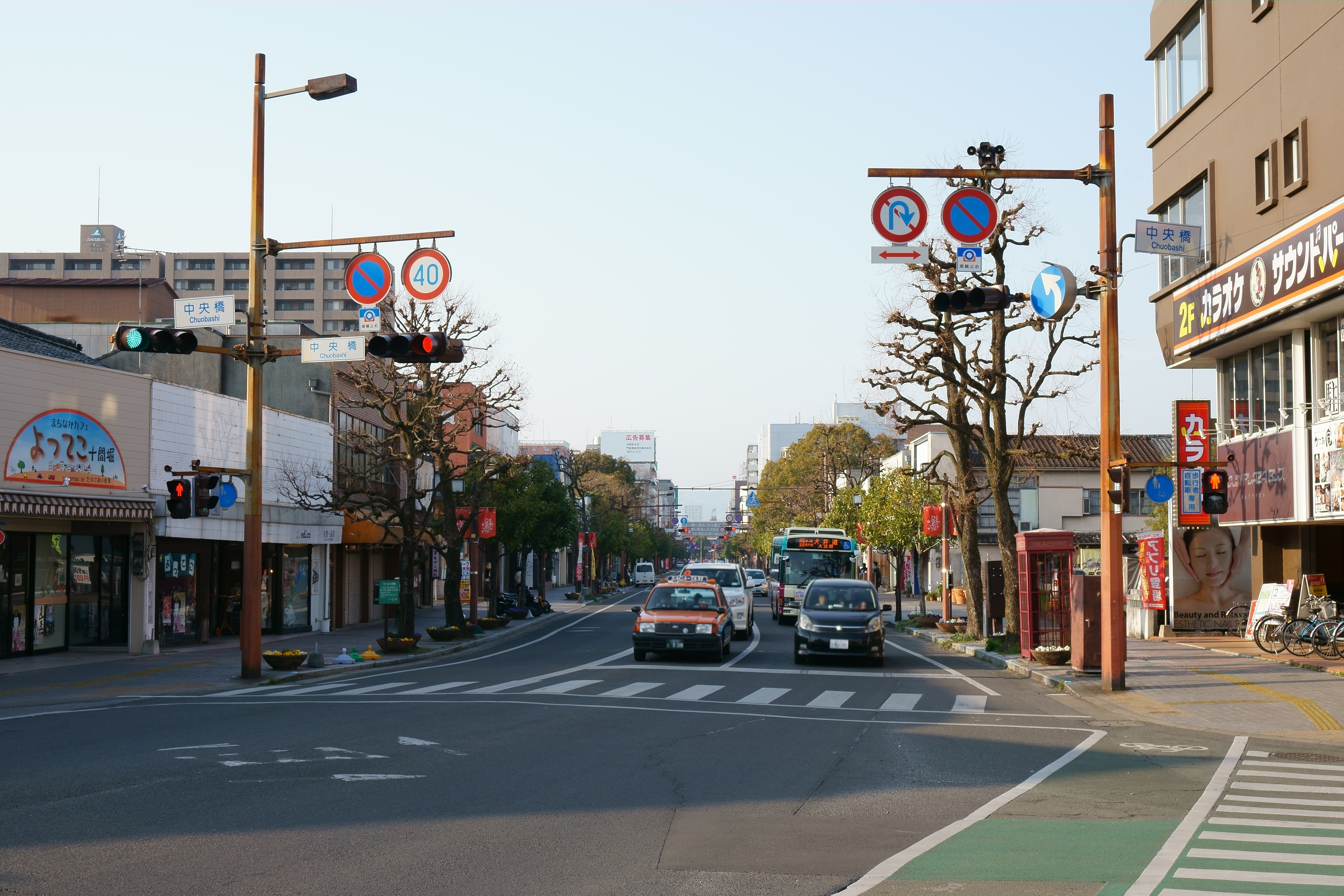 Tojinmachi Shopping Street in Saga, from Chuobashi bridge to Saga Station.